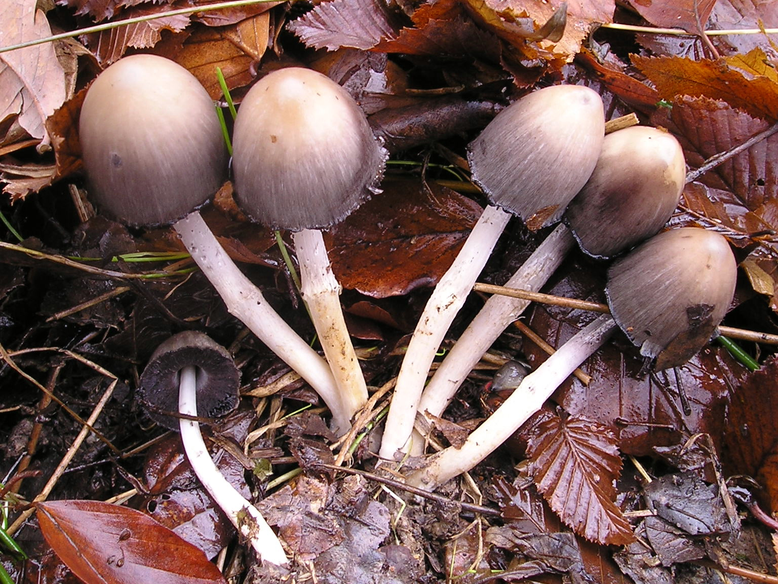 Coprinus sp. Ink Cap